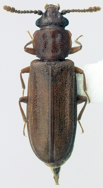 Dorsal habitus AutoMontage photo of Pediacus subglaber